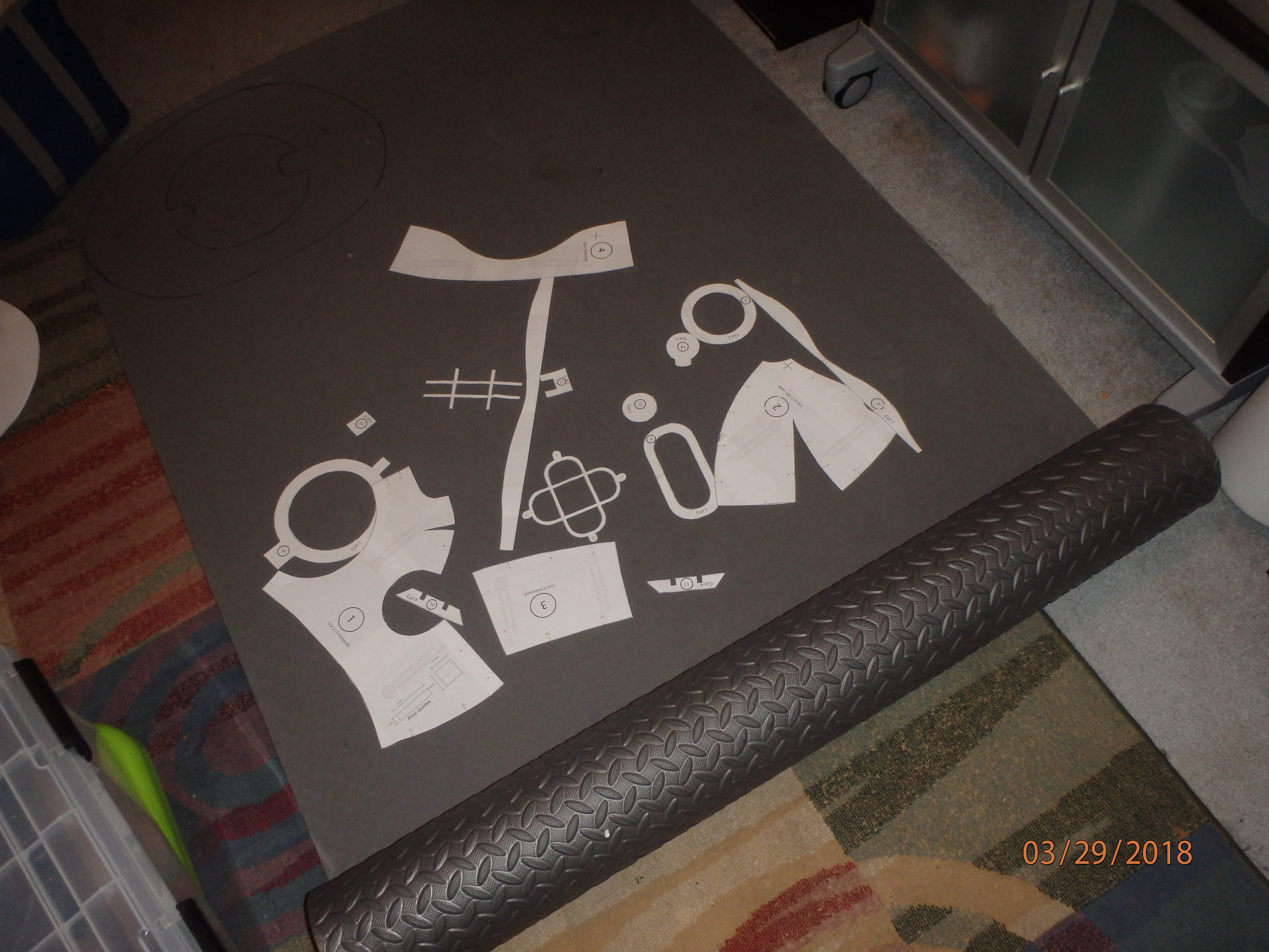 Creating a steampunk diving helmet out of EVA foam for an upcoming Nautical themed steampunk event in Miami